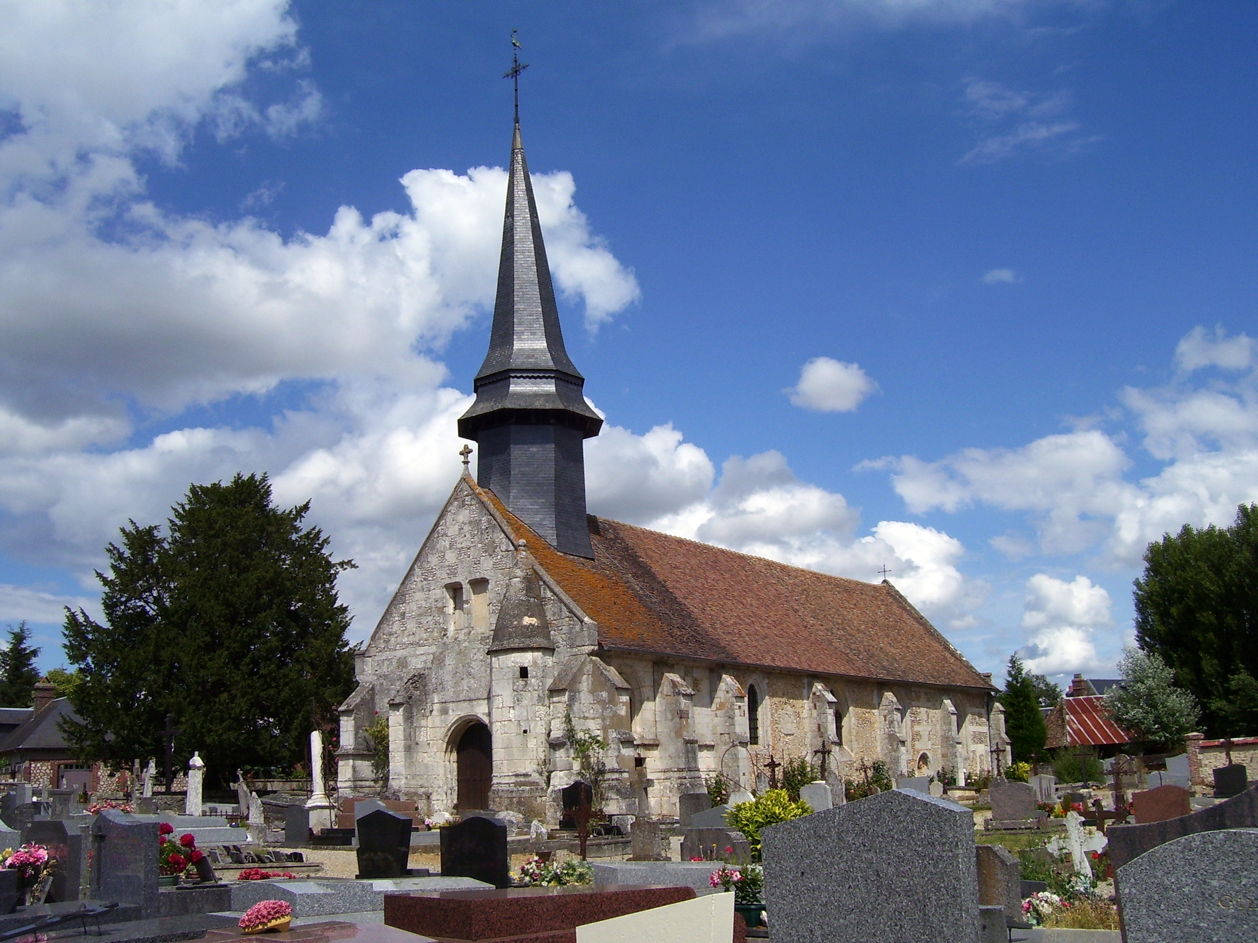 Church Sainte-Catherine in La Neuville-du-Bosc in Eure in Normandie in France. It was built in the 14th century and rebuilt in the 16th century. The bell tower was built in renaissance style.